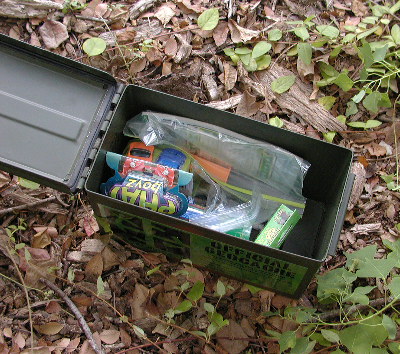 The classic geocache is trade items in a military ammunition box